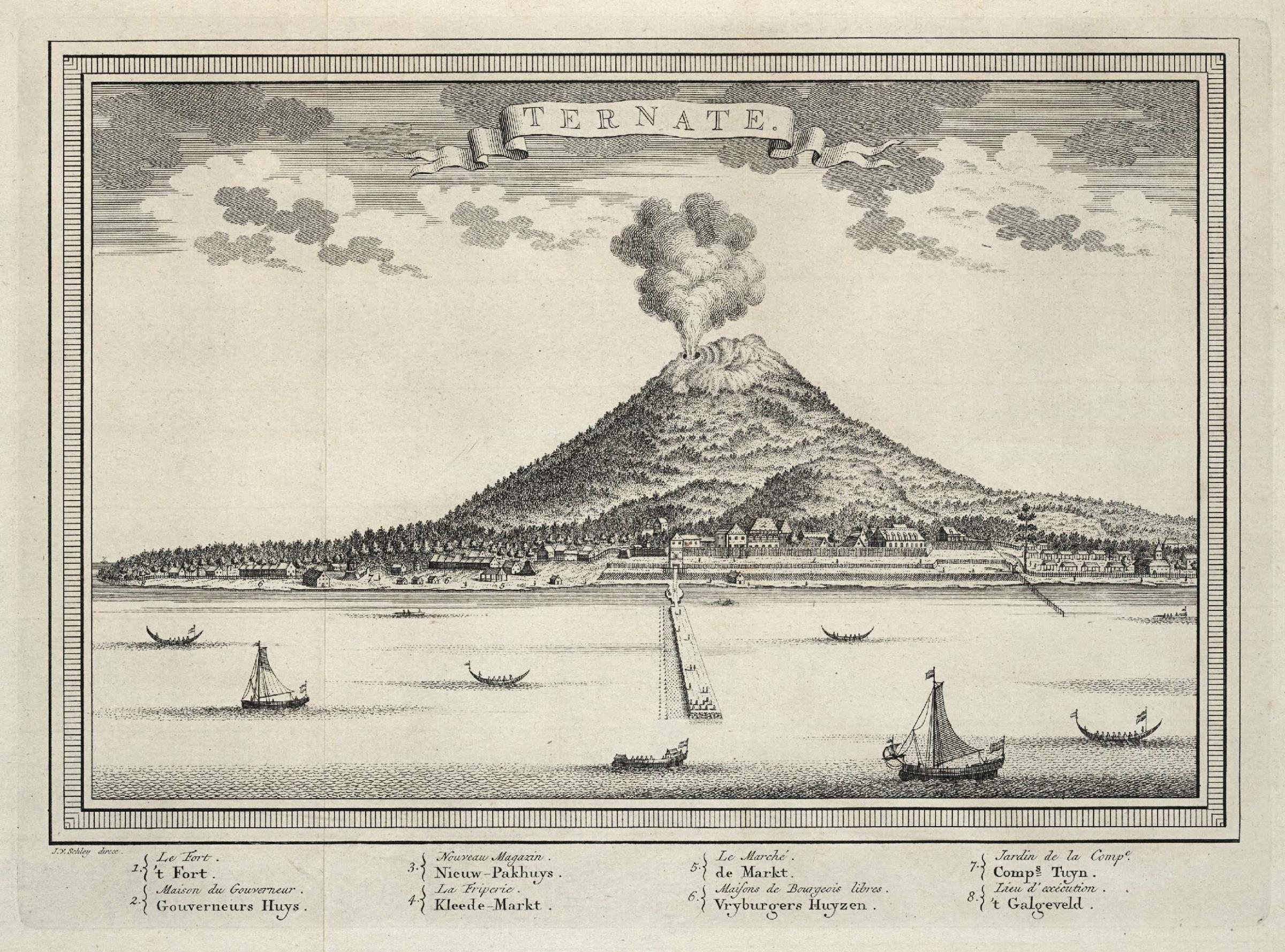 View of Ternate. Ternate. Key: 1-8. Cf. Bronbeek, Arnhem, inv.nr. 3113.5A329; Koninklijke Bibliotheek, The Hague, inv. nr. 227 K 1 part II, after p. 90; Scheepvaartmuseum, Amsterdam, SNSM_b0032(109)06[chart156]; Tropenmuseum, Amsterdam 2989-7e.